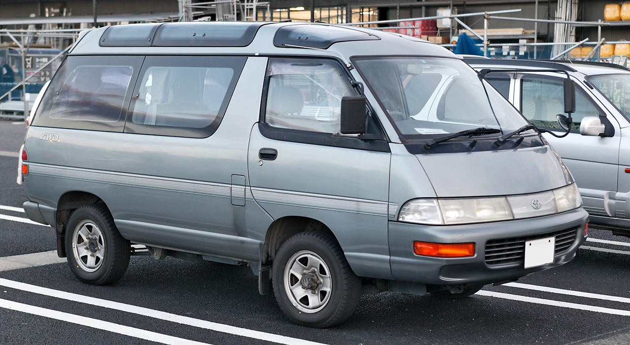 Toyota Townace Wagon 4WD 2.2DT Super Extra Skylight Roof ( CR31G )